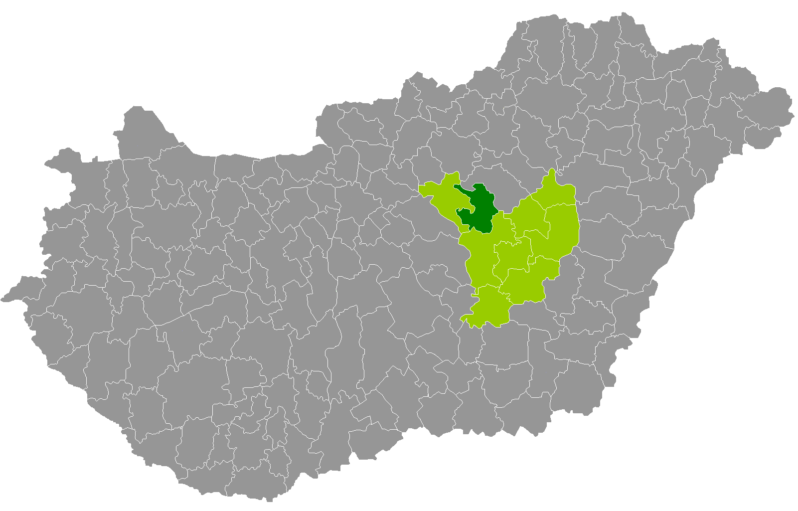 Location of Jászapáti District, Jász-Nagykun-Szolnok, Hungary